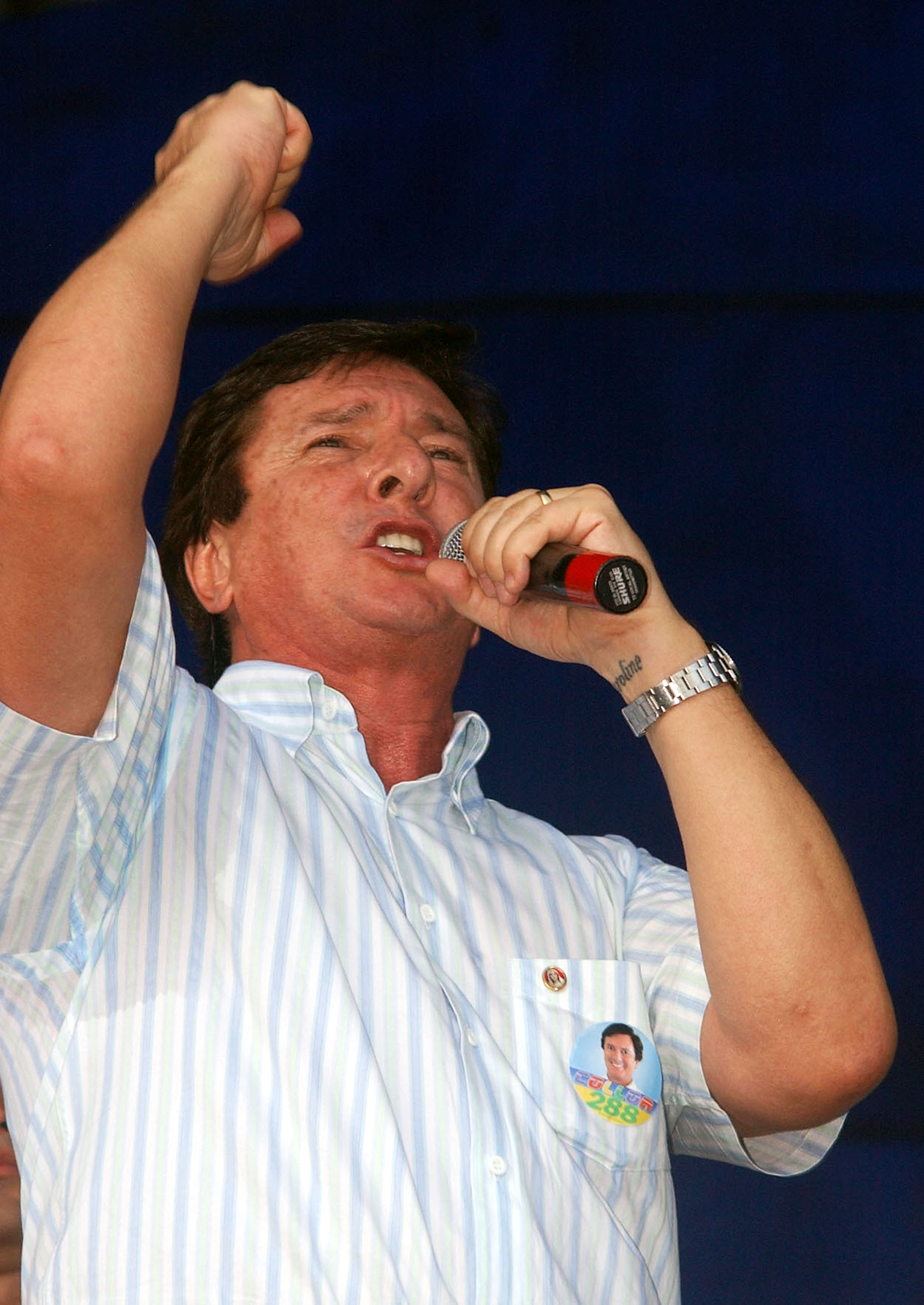 Former Brazilian president Fernando Collor during campaign for Senate in the state of Alagoas.